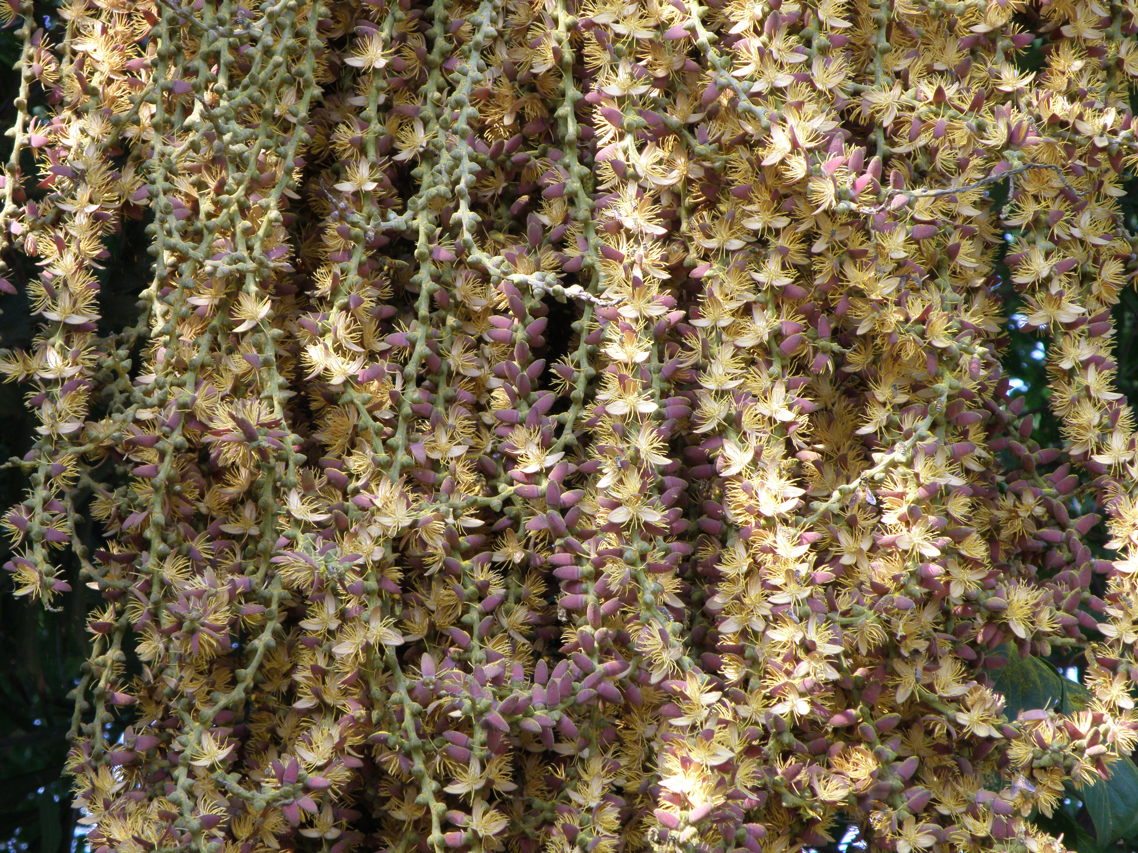 Flora of Caryota Urens seen infrequently in this way.